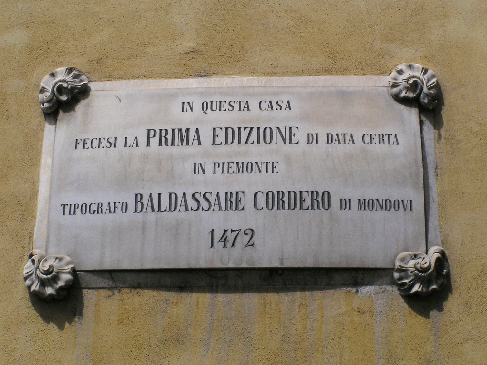 Plaque in Mondovì reading "In this home - was made the first edition with a certain date - in Piedmont - typographer Baldassarre Cordero from Mondovi - 1472"